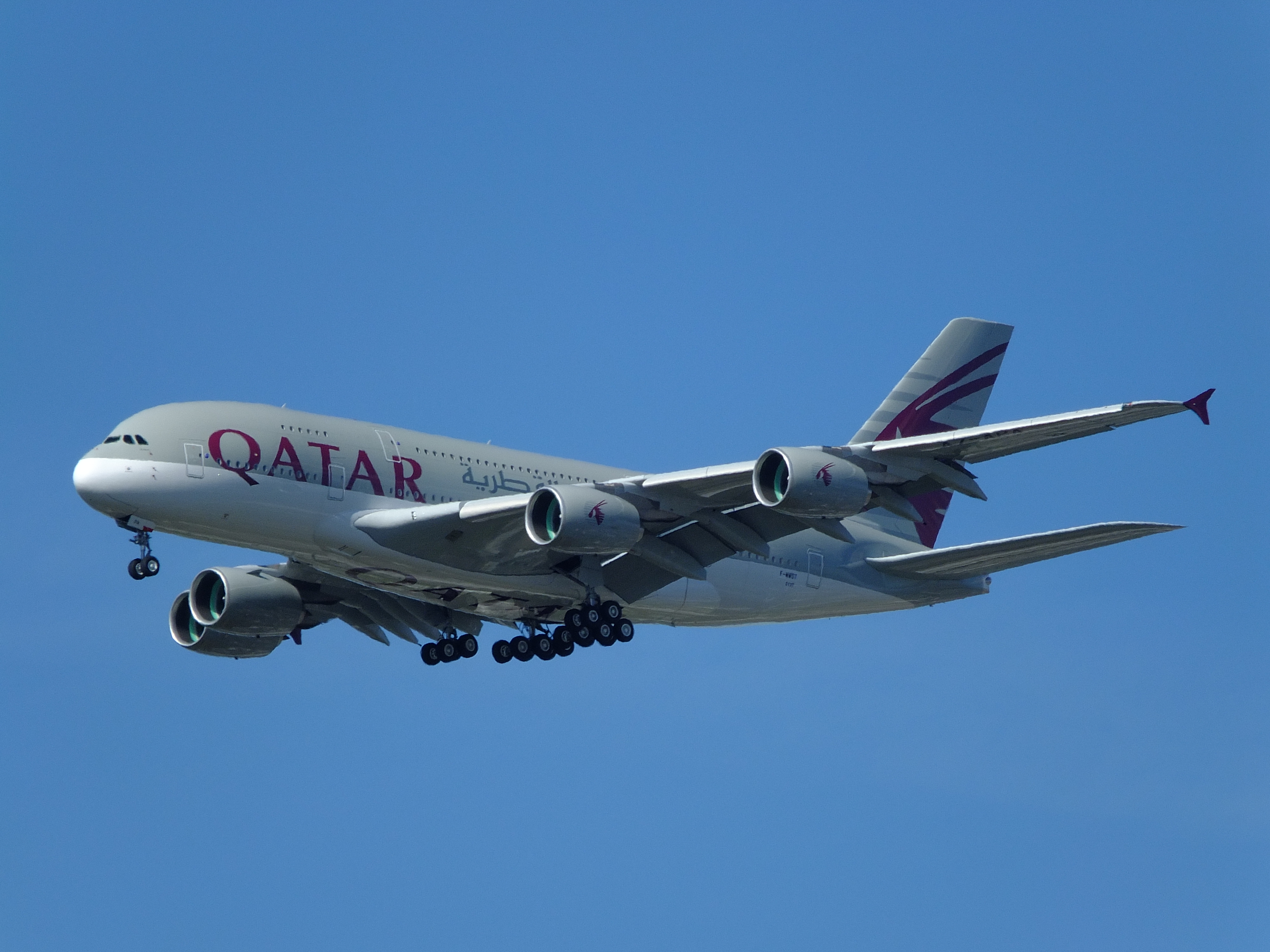 Airbus A380-841 F-WWST, MSN137. Will be A7-APA after delivery (1st Qatar Airways' A380).